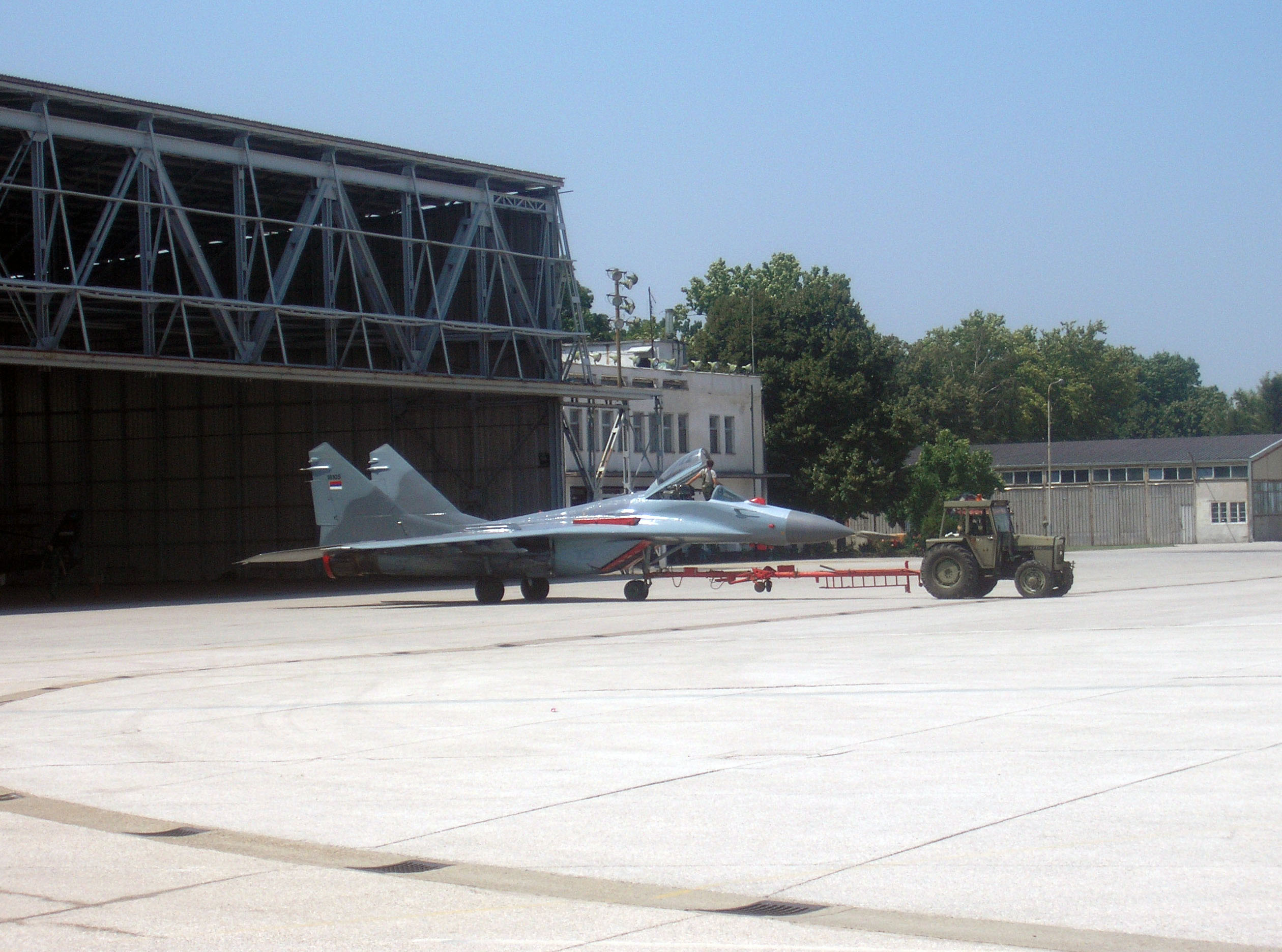 MiG-29 fighter aircraft No.18105 of 101. Fighter-Aviation Squadron, 204th Air Base of Serbian Air Force, at Batajnica airbase during the Saint Elijah, the Aviation Day in Serbia. The aircraft is being parked in hangar after it was flown by General Đukanović as part of Air show.